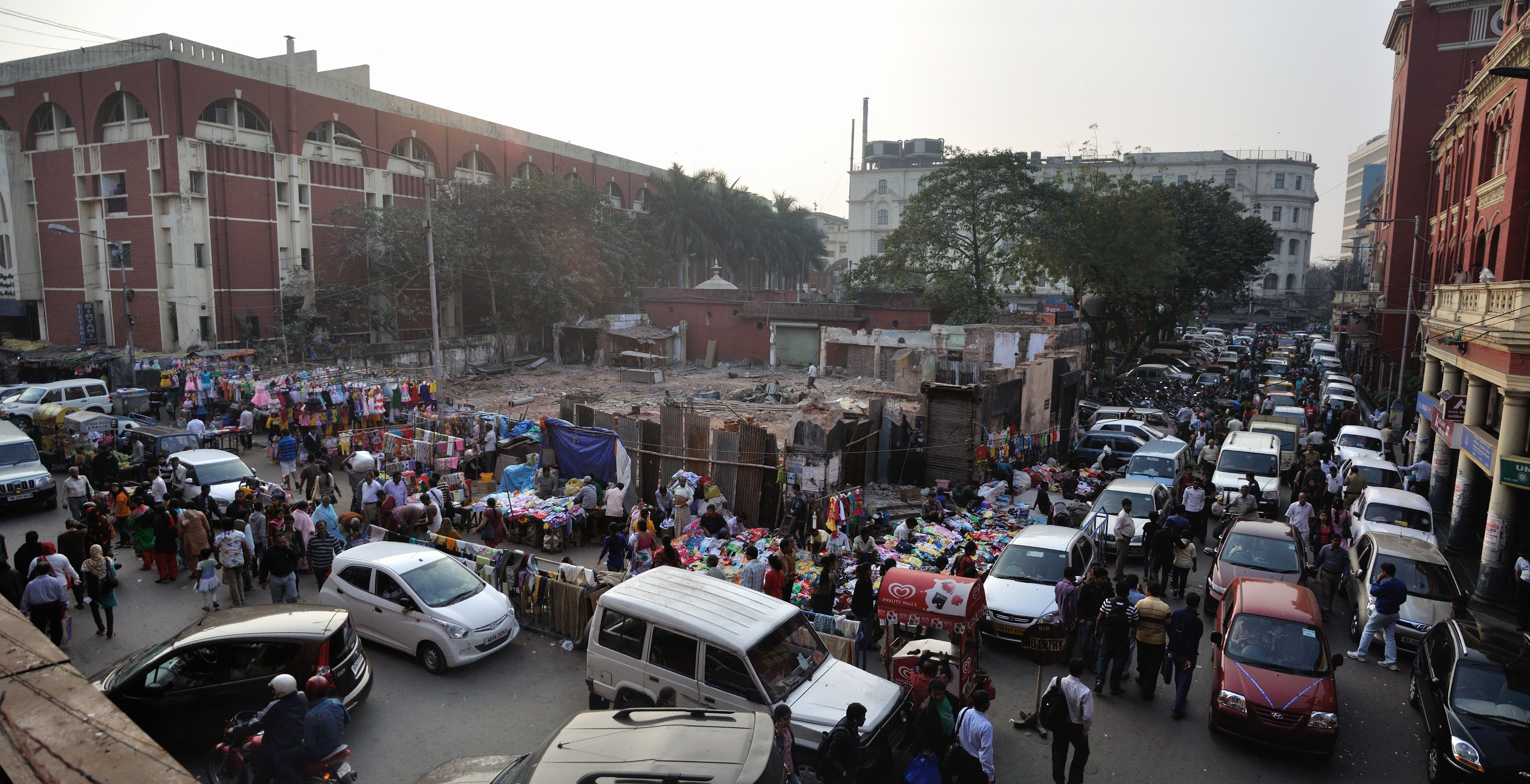 The space occupied by the 'Chaplin Cinema' formerly 'Minerva Cinema' and 'Elphinstone Picture Palace' in Kolkata.